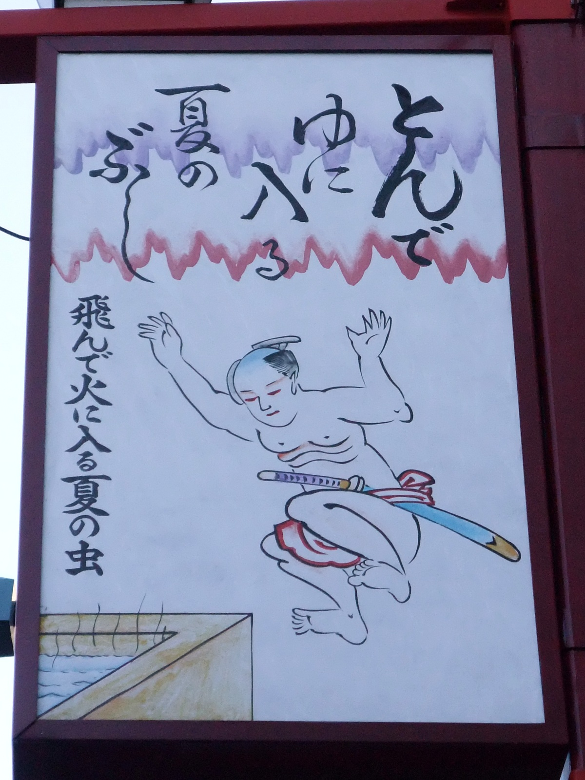 "Ziguchi Andon", a streetlamp on the Denbōin-dōri street, Sensō-ji